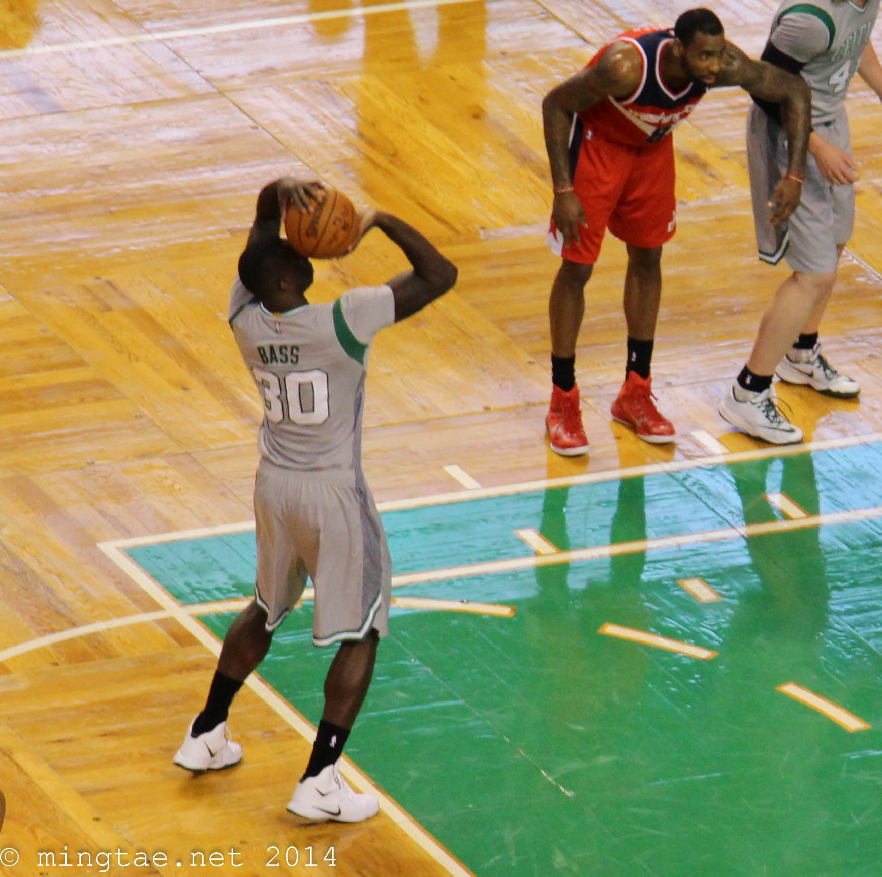 Boston Celtics player Brandon Bass